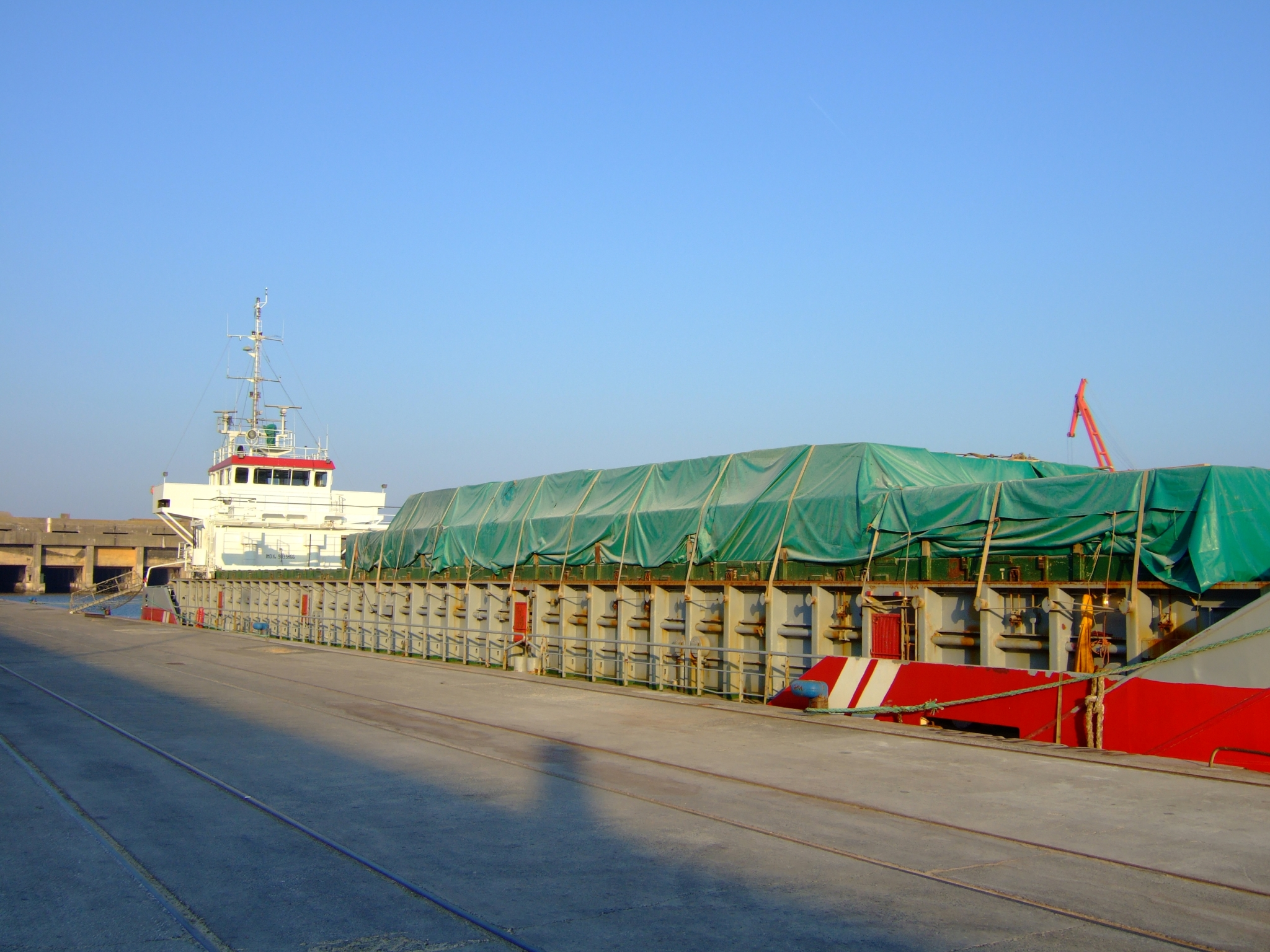 Mv Osteborg awaiting in La Pallice port, La Rochelle, Charentes maritimes, France. IMO Number: 9033866 MMSI Number: 306441000 Callsign: PJMR Length: 82 m Beam: 13 m